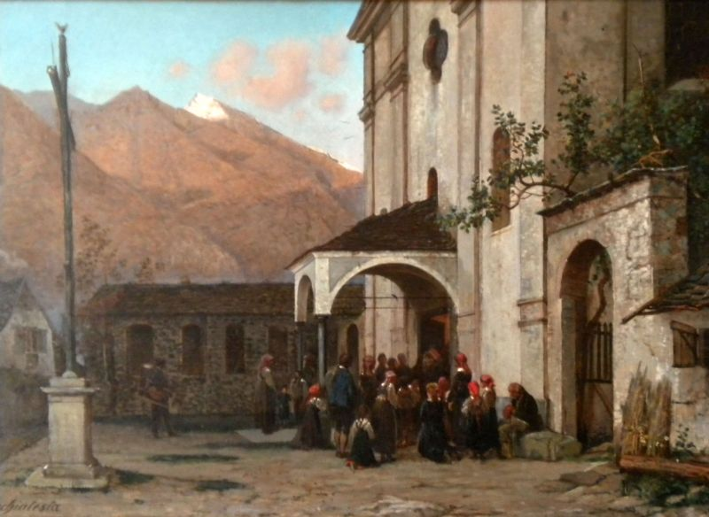 photograph of a picture